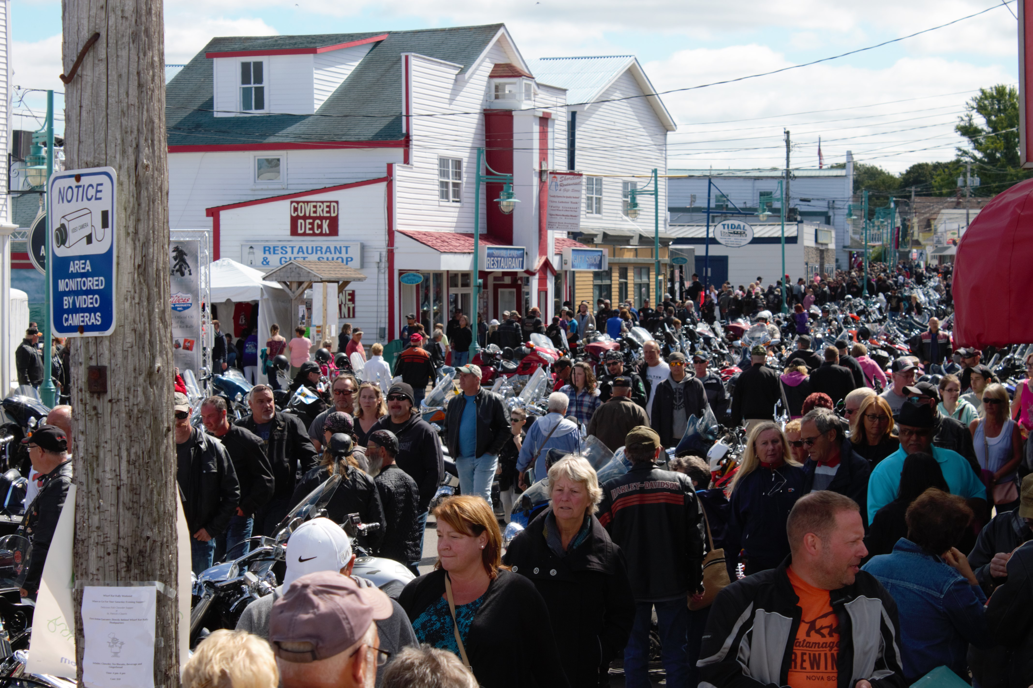 Visitors checking out the bikes and events at the Wharf Rat Rally 2017, along Water Street, Digby, Nova Scotia